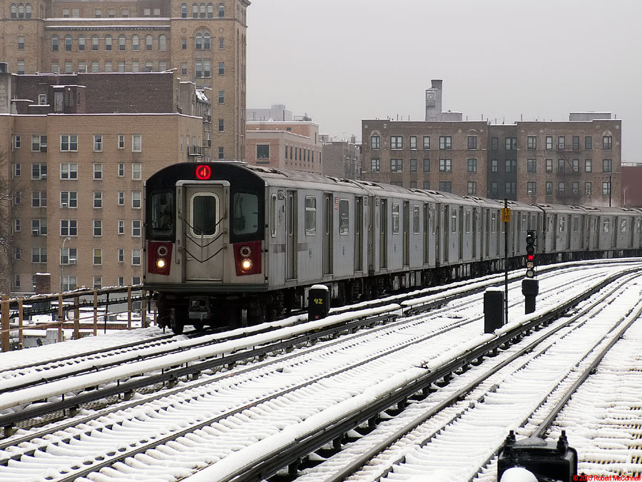 A New York City Subway train of R142 cars is seen operating on the "4" line.